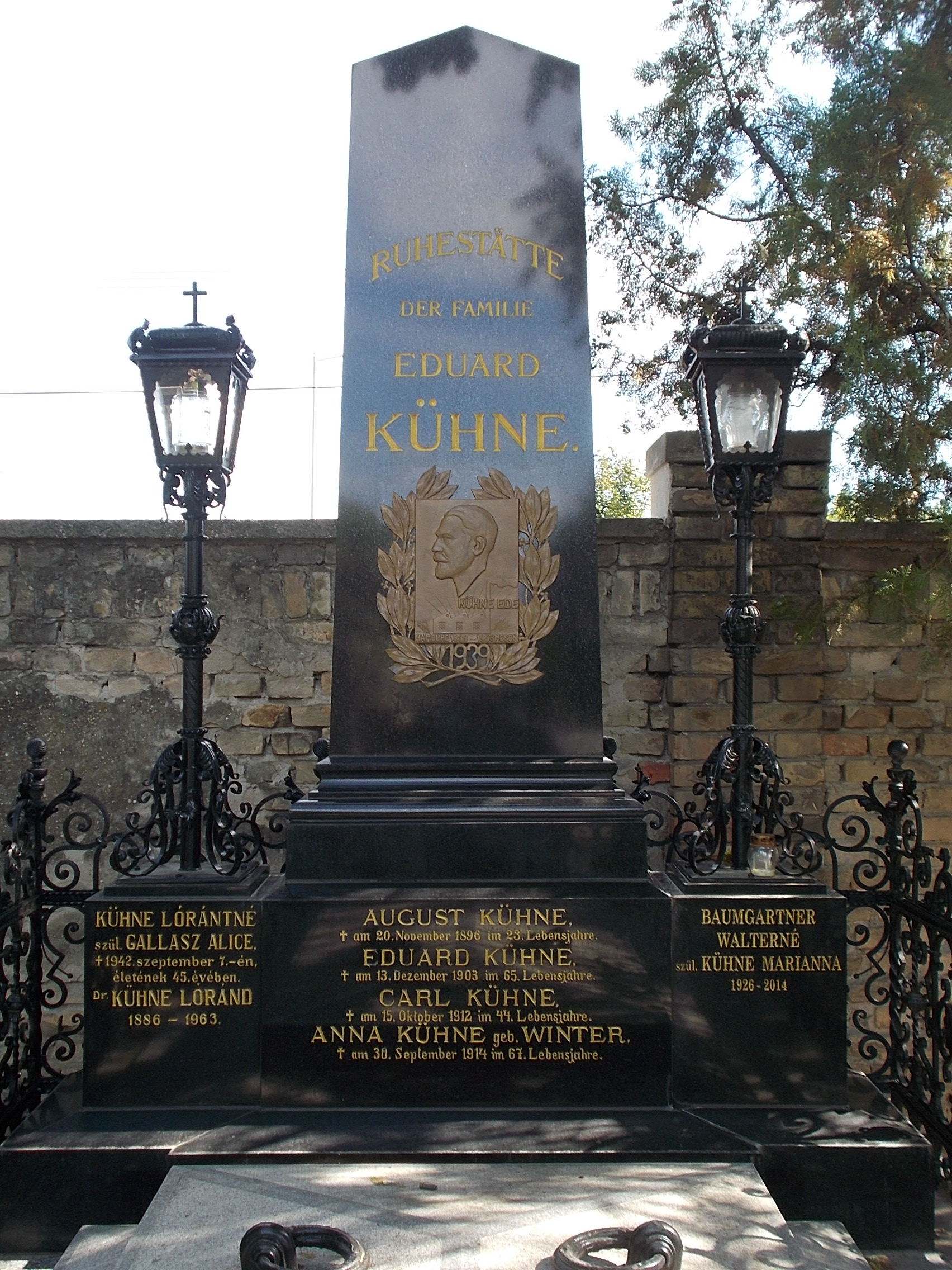 Moson Cemetery. - Moson neighborhood, Mosonmagyaróvár, Győr-Moson-Sopron County, Hungary.